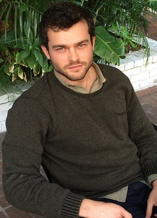 Ehrenreich